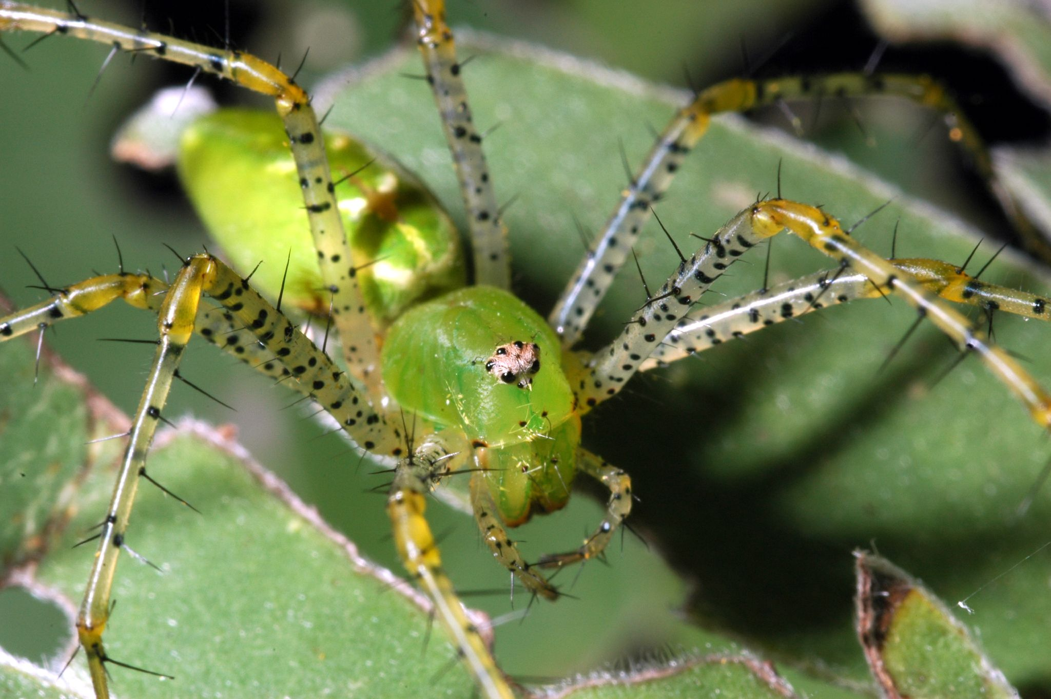 Green Lynx Spider (Peucetia viridans), Amistad National Recreational Area, Del Rio, Texas, USA